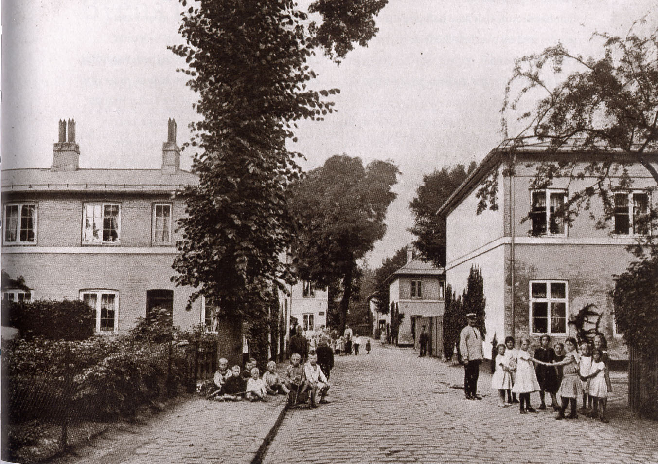 Brumleby in Østerbro, Copenhagen, Denmark